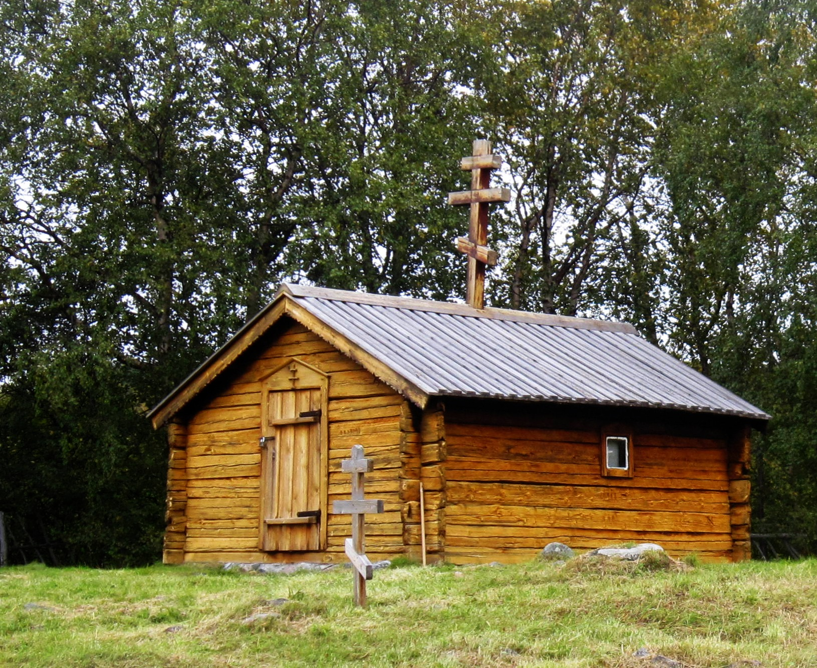 Orthodox St. Georg's Chapel in Neiden/Norway, build 1565